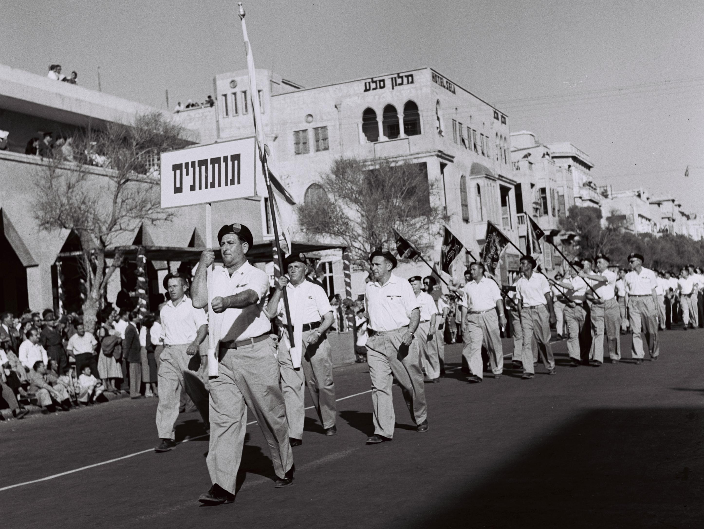 Group of artillery divisionof The Jewish Brigade marching in Tel Aviv.